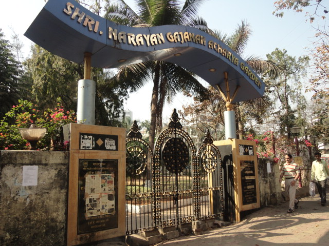 Chembur diamond garden